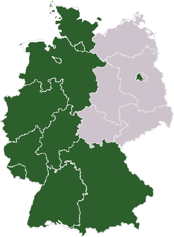 Germany divided – Bundesrepublik Deutschland, West Berlin, 23 May 1949, (Saarland joined in 1957) Author: Wiki-vr (based on image Image:Map_objekt_and_num_file_final.png by Jack the Shark) Free use for Wikipedia